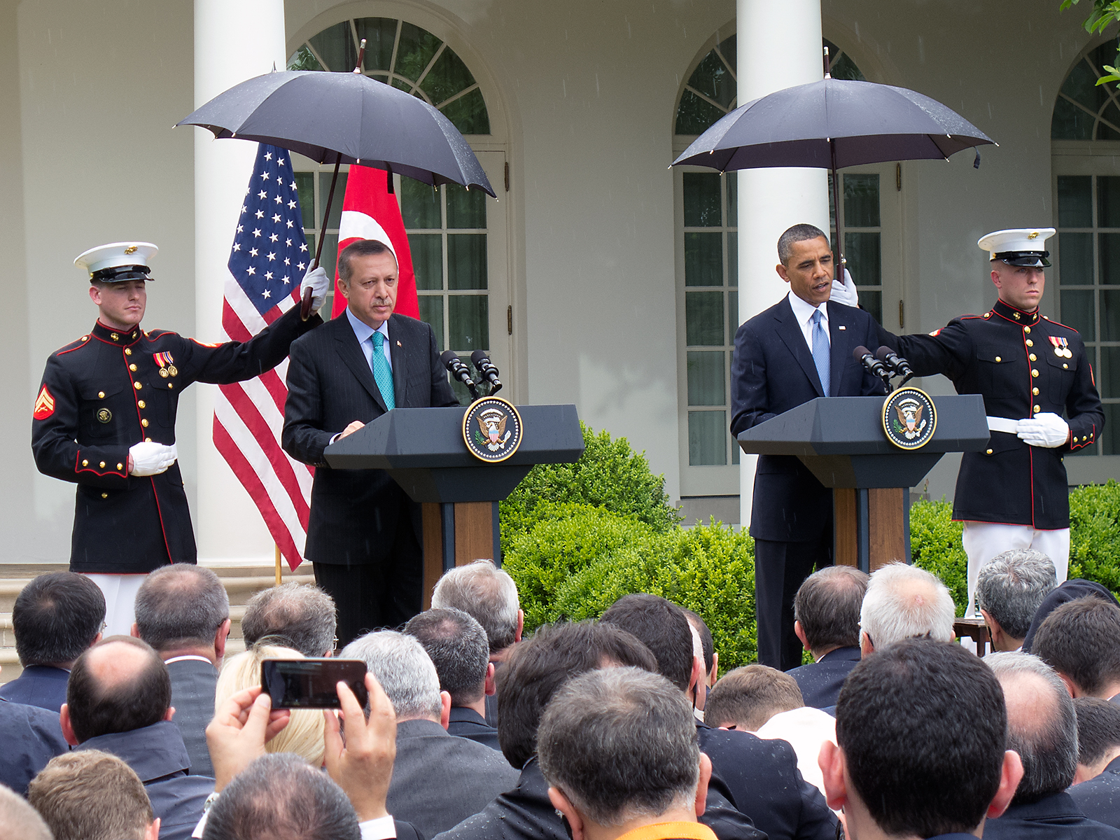 U.S. President Barack Obama and Turkish Prime Minister Recep Tayyip Erdoğan hold a press conference in the Rose Garden of the White House.